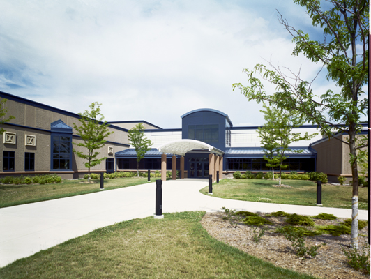 Main entrance of DeWitt High School. Located on Panther Drive in DeWitt, Michigan.